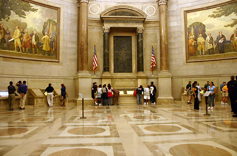 Rotunda for the charters of Freedom at National Archives (NARA) building in Washington, D.C. Here displayed are the Declaration of Independence, the Bill of Rights, and the U.S. Constitution.